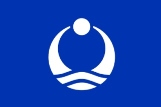 Flag of Aga Niigata